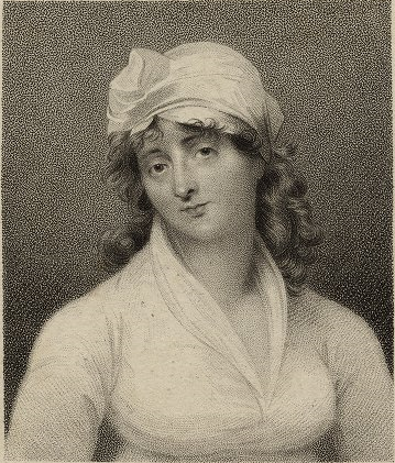 Collection: Folger Shakespeare Library Digital Image Collection Collection Folger Shakespeare Library Digital Image Collection Collection Source Creator: Freeman, Samuel, 1773-1857, printmaker. Author Freeman, Samuel, 1773-1857, printmaker. Source Creator Source Title: Mrs. Inchbald [graphic] / painted by Lawrence ; engraved by Freeman. CD_Title Mrs. Inchbald [graphic] / painted by Lawrence ; engraved by Freeman. Source Title Source Created or Published: [London] : Published by Vernor, Hood & Sharpe, July 1, 1807. Imprint [London] : Published by Vernor, Hood & Sharpe, July 1, 1807. Source Created or Published Source Call Number: ART File I37 no.3 Call_Number ART File I37 no.3 Source Call Number Digital Image File Name: 8958 ROOTFILE 8958 Digital Image File Name Digital Image Type: FSL collection Image_Type FSL collection Digital Image Type Hamnet Bib ID: 255882 Bibrecord001 255882 Hamnet Bib ID Hamnet Holdings ID: 338022